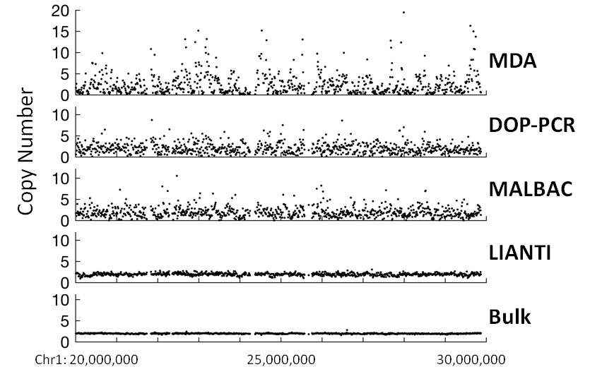 Uniformity modified